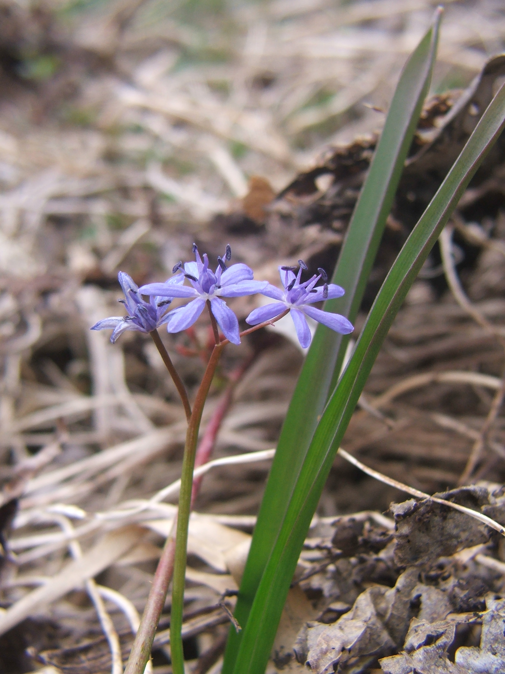 Scilla vindobonensis Speta at Vác, Hungary.